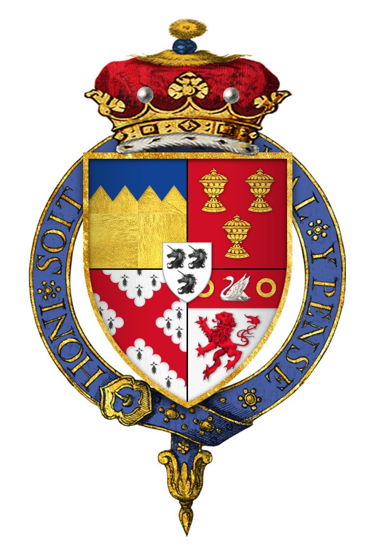 Coat of arms of James Butler, 1st Marquess of Ormonde, KG cropped